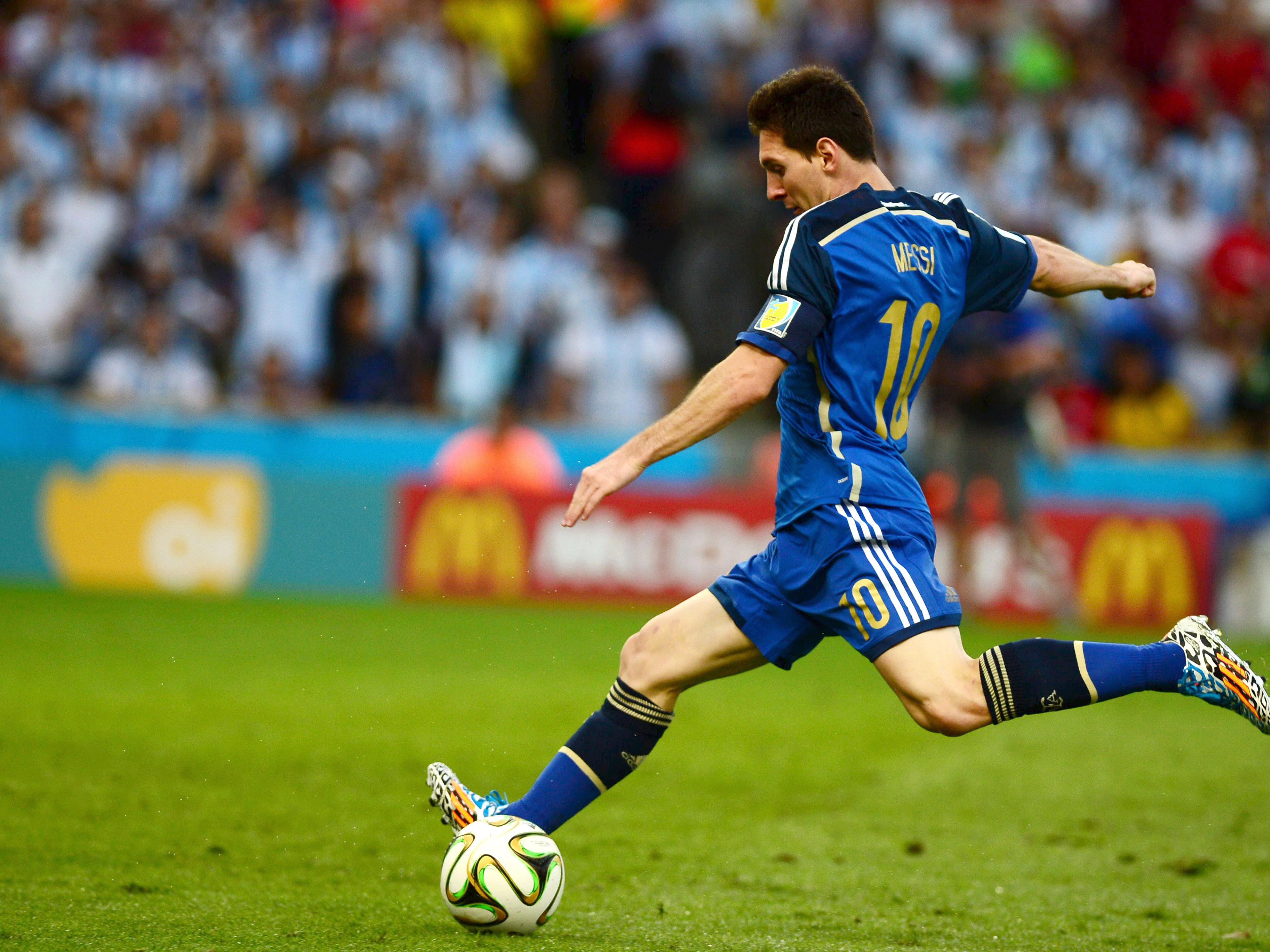 Germany and Argentina face off in the final of the World Cup